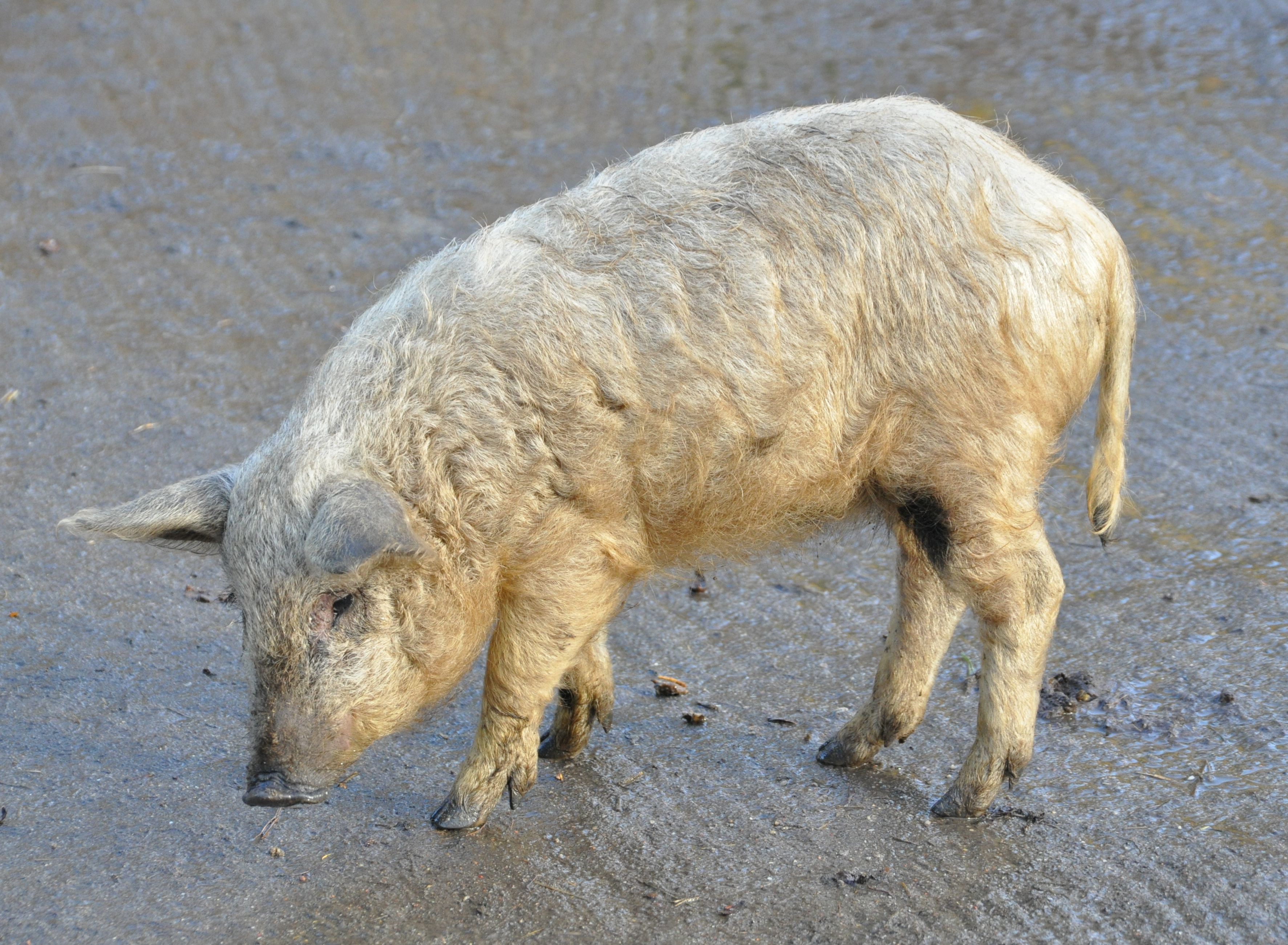 Mangalitsa (Sus scrofa domestica) in the Lüneburg Heath wildlife park, Germany.